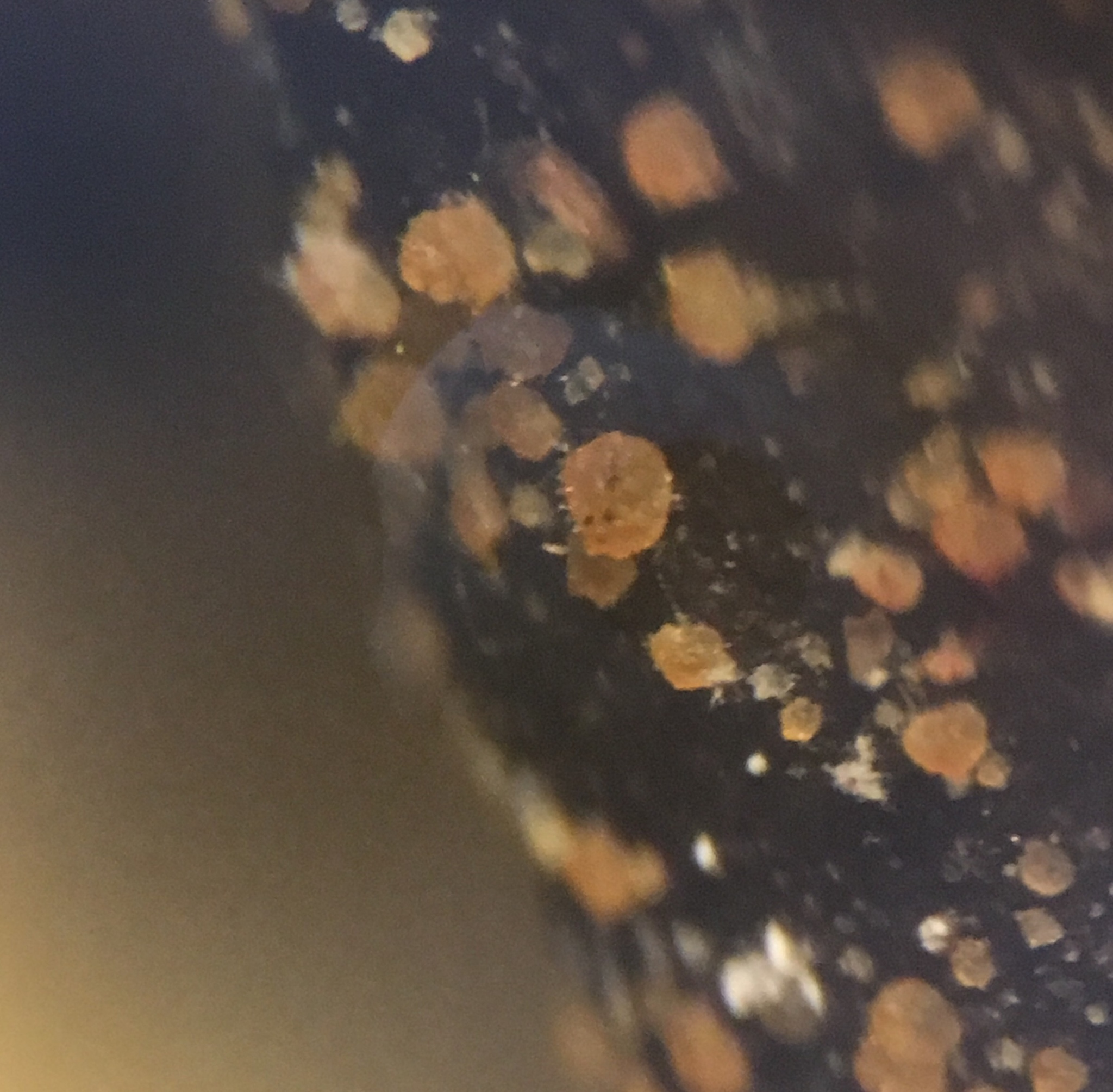 Saccobolus citrinus Boud. & Torrend Image location: Tex Canyon, Chiricahua Mountains, Arizona, USA Substrate herbivore dung, collected September 2. Specimens appeared a month later (cultured) Recognized by sight: Lemony yellow apothecia Based on microscopic features: Spores 14µm by 8µm. Spores are dotted, loose inside the asci. For more information about this, see the observation page at Mushroom Observer.